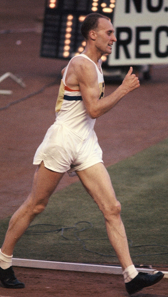 Ken Matthews at the 1964 Olympics